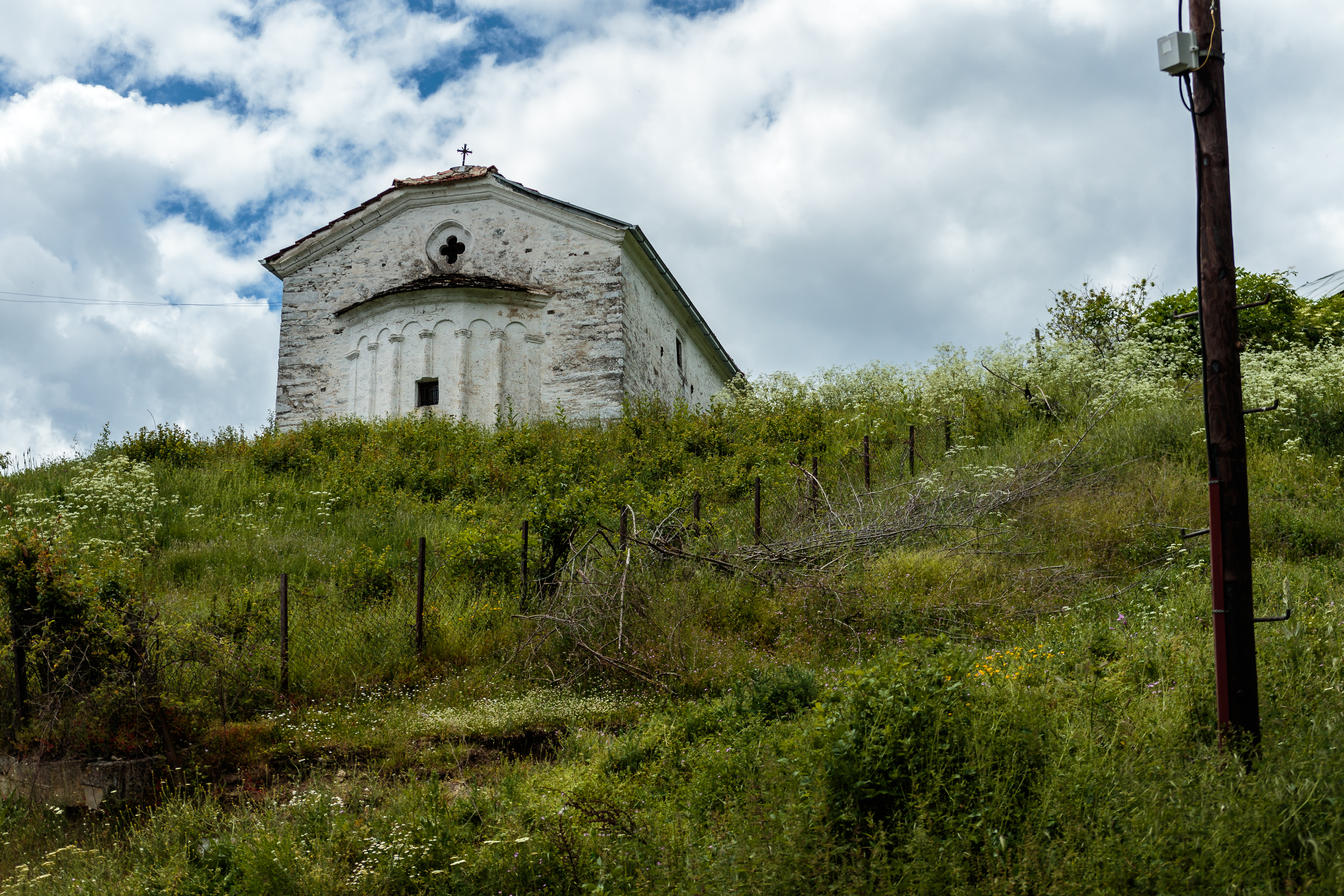 View of the St. Elijah Church in the village Zašle